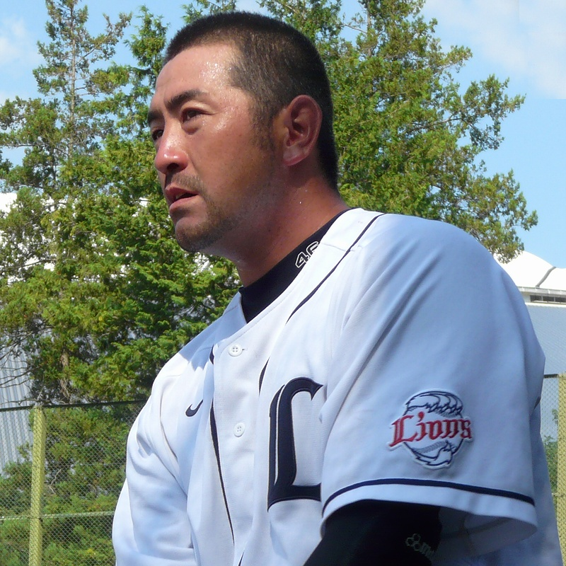 SL-Takahiko-Sato20100826